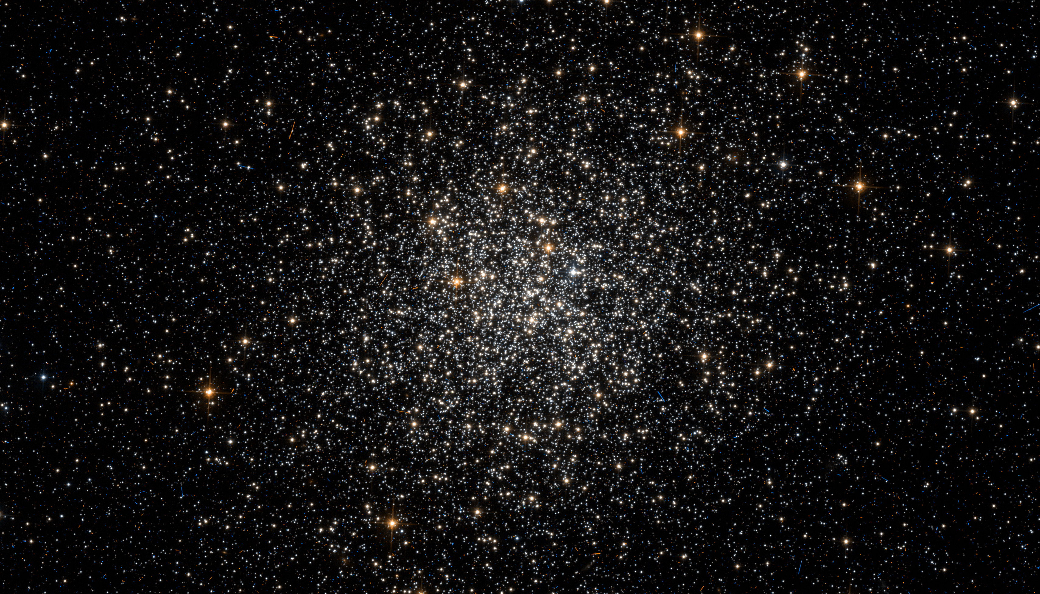 Color rendering is done by by Aladin-software (2000A&AS..143...33B.)